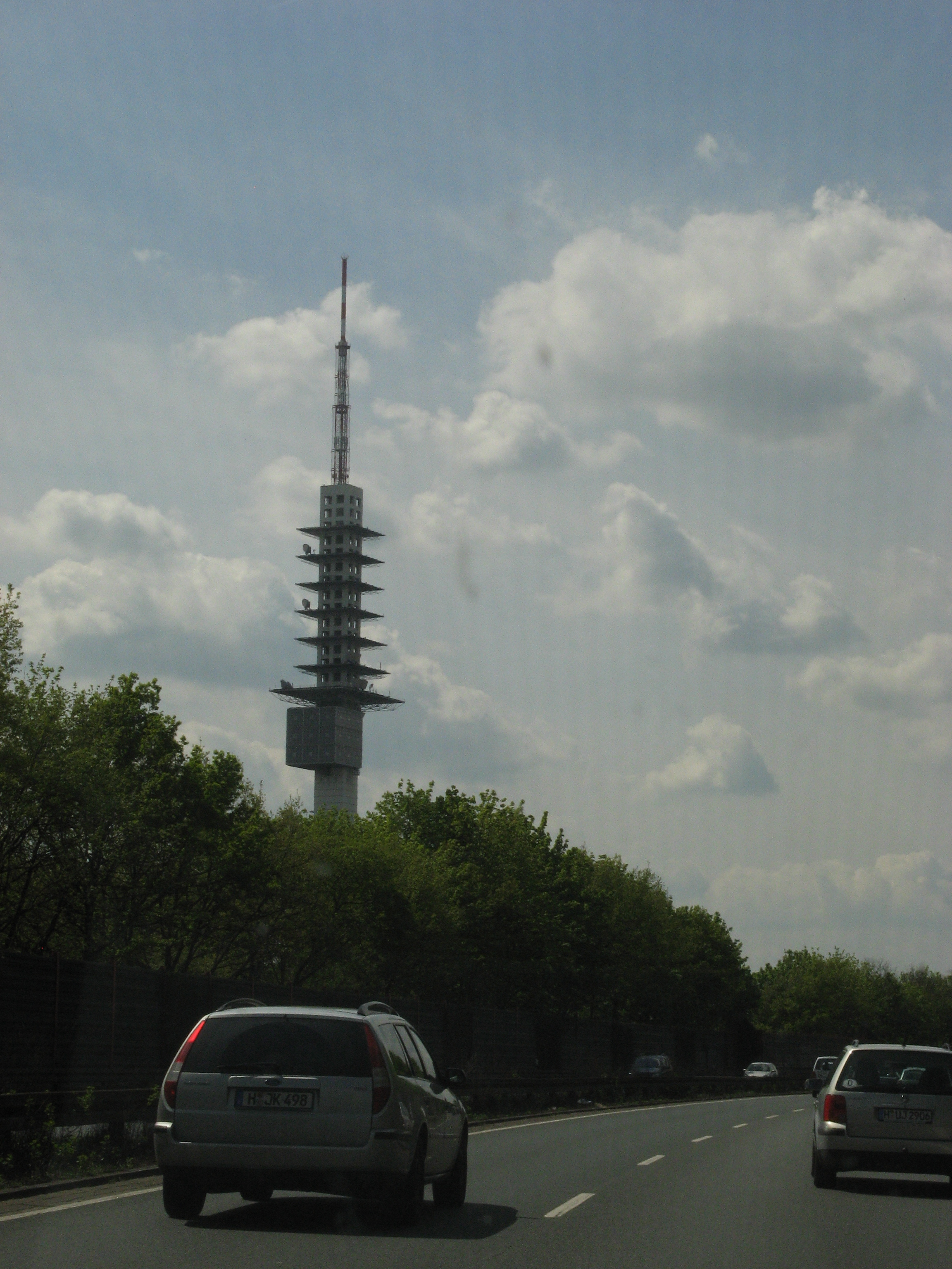 telemax